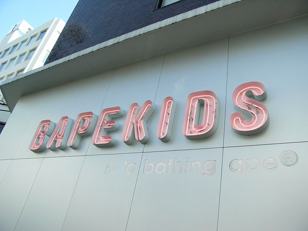 Japanese fashion brand BAPE store for kids, Tokyo, Japan.